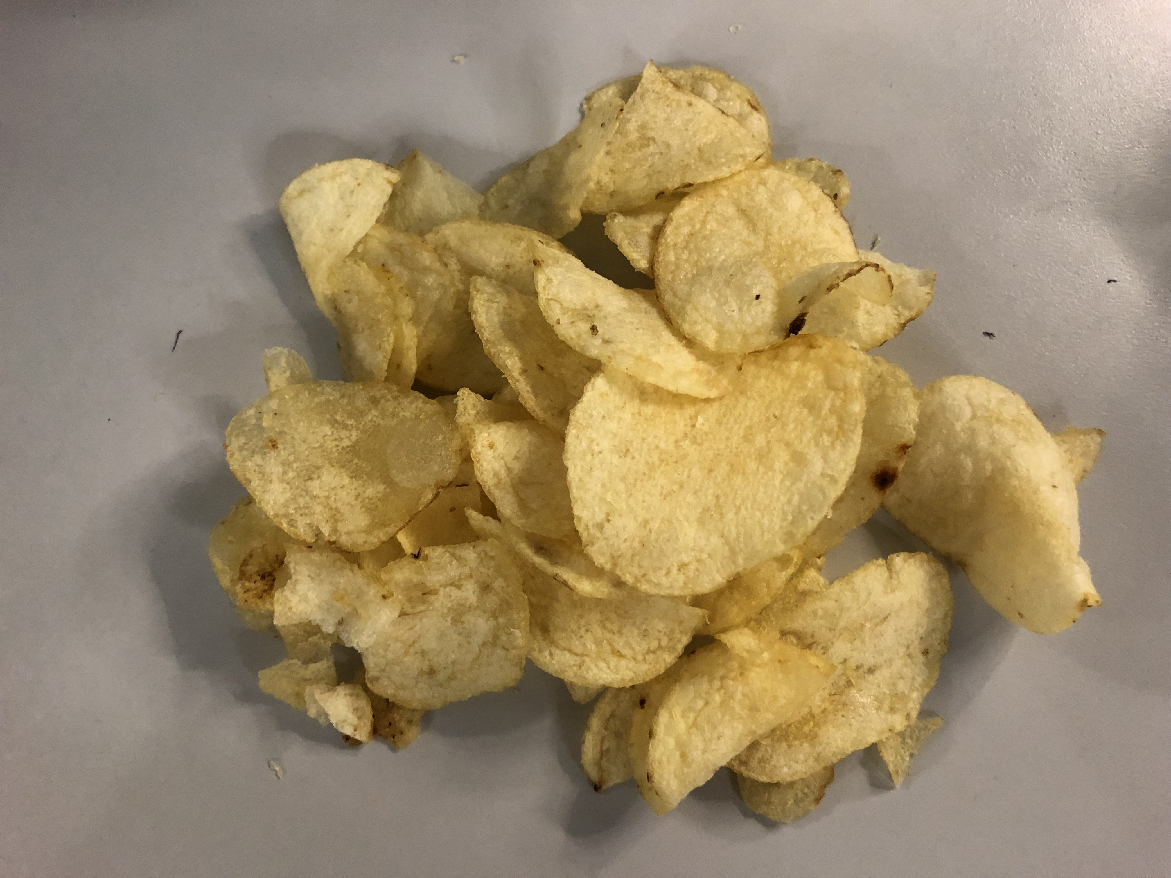 Lay's Classic Potato Chips in the Dulles section of Sterling, Loudoun County, Virginia